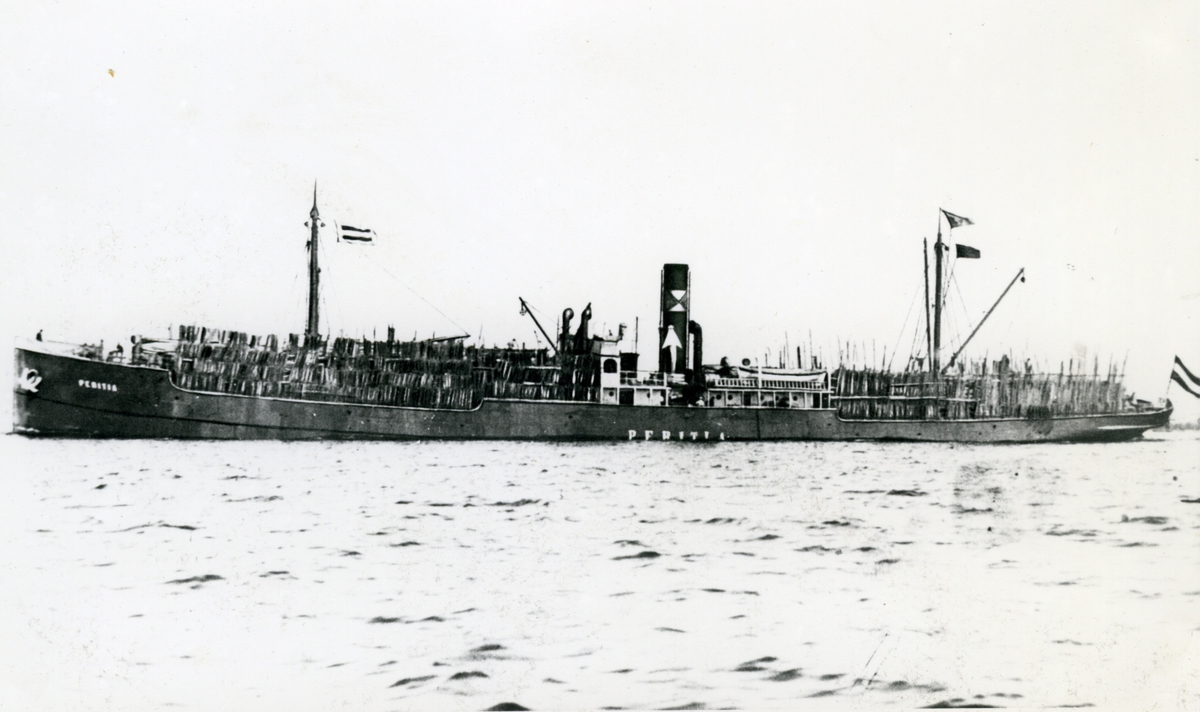 General cargo ship PERITIA (ID 5603155) built at Eiderwerft, Tönning (yard № 83, launched: 31-03-1908, delivered: 16-05-1908), missing in Baltic Sea about 200nm west of Riga 06-09-1924; collection J. Robert Boman (1926 - 2002) owned by Sjöhistoriska museet.